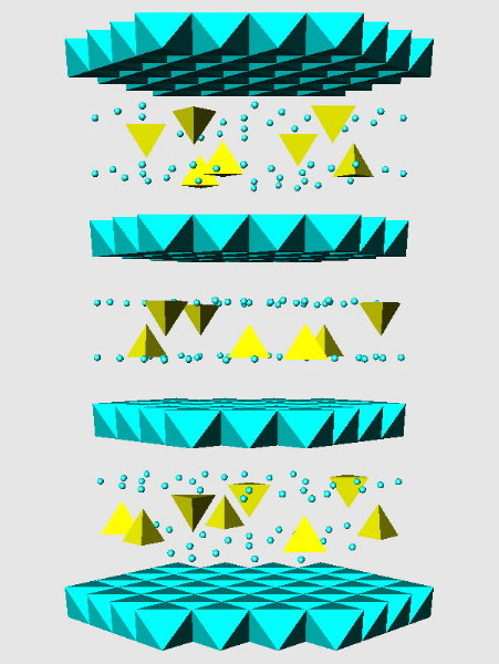 Crystal structure of Hydrowoodwardite with metal2+-metal3+-hydroxide layers similar brucite and inter layers with sulfate (yellow tetrahedron) and water